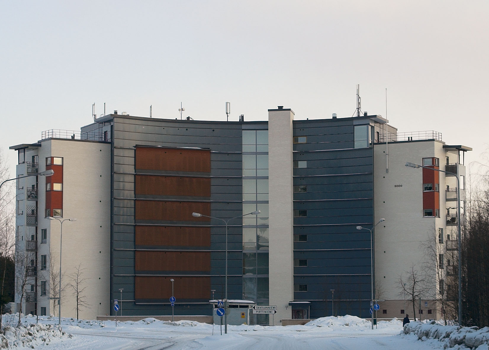 "Pirtti-tower" in Pirtinkaari 1 -street, Kuopio, Finland. 4 855 br m2